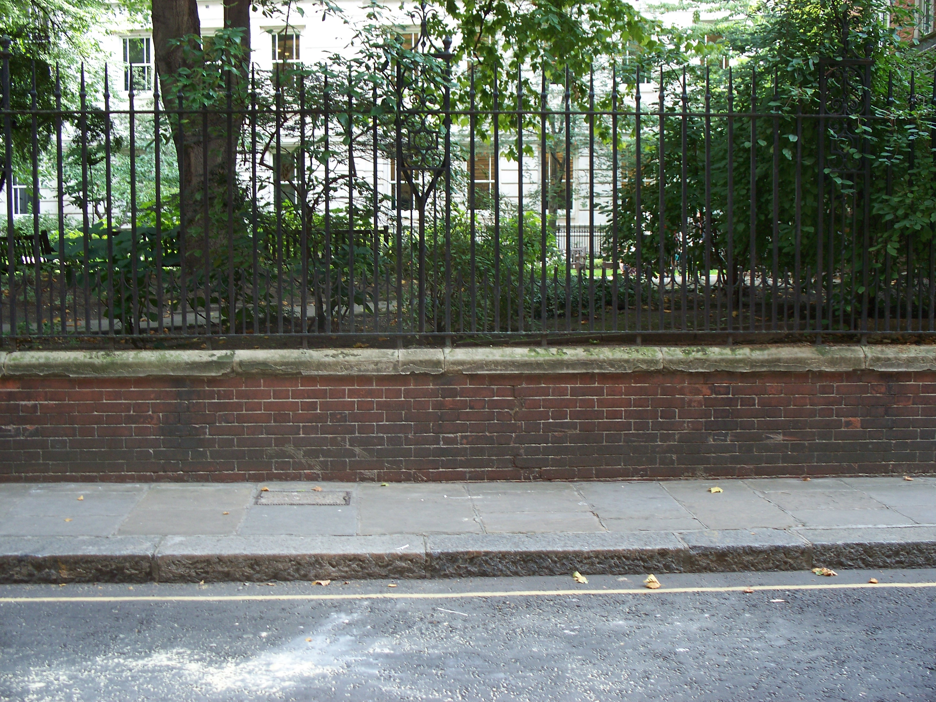 Postman's Park, London. Photograph taken in a public location in the UK of a structure on permanent public display, and exempt from copyright under Section 62 of the Copyright Designs & Patents Act 1988 ("it is not an infringement of copyright to film, photograph, broadcast or make a graphic image of a building, sculpture, models for buildings or work of artistic craftsmanship if that work is permanently situated in a public place or in premises open to the public")